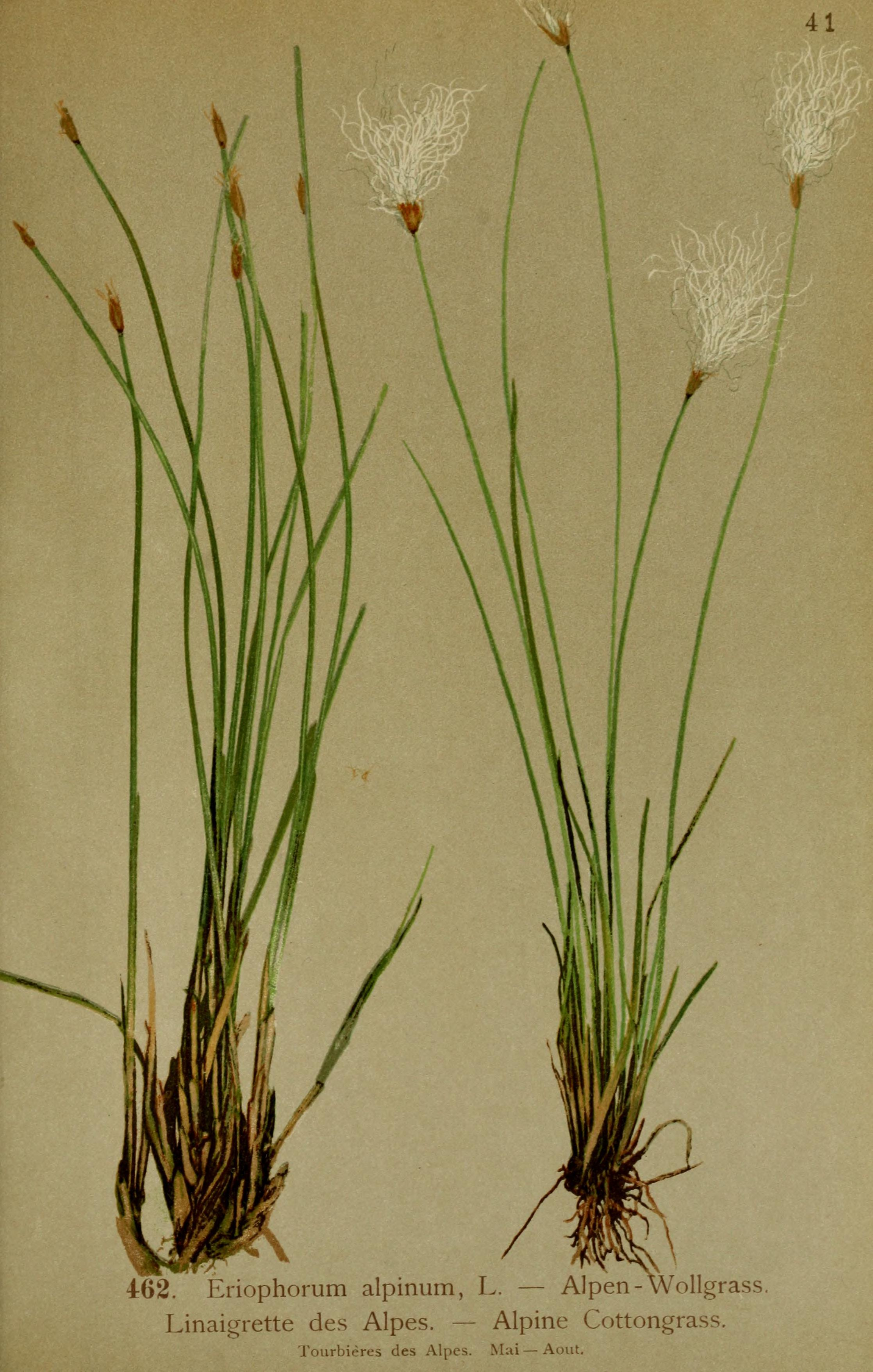 Title: Atlas de la flora alpine Year: 1899 (1890s) Authors: Correvon, Henry, 1854-1939; Club alpin allemand et autrichien Subjects: Plants; Mountain plants Publisher: Genève, Georg & Co. Text Appearing Before Image: 41 Text Appearing After Image: 462. Eriophorum alpinum, L. — Alpen-Wollgrass, Linaii^n-ette des Alpes. — Alpine Cottongrass. Tourbières des Alpes. Mai—Août